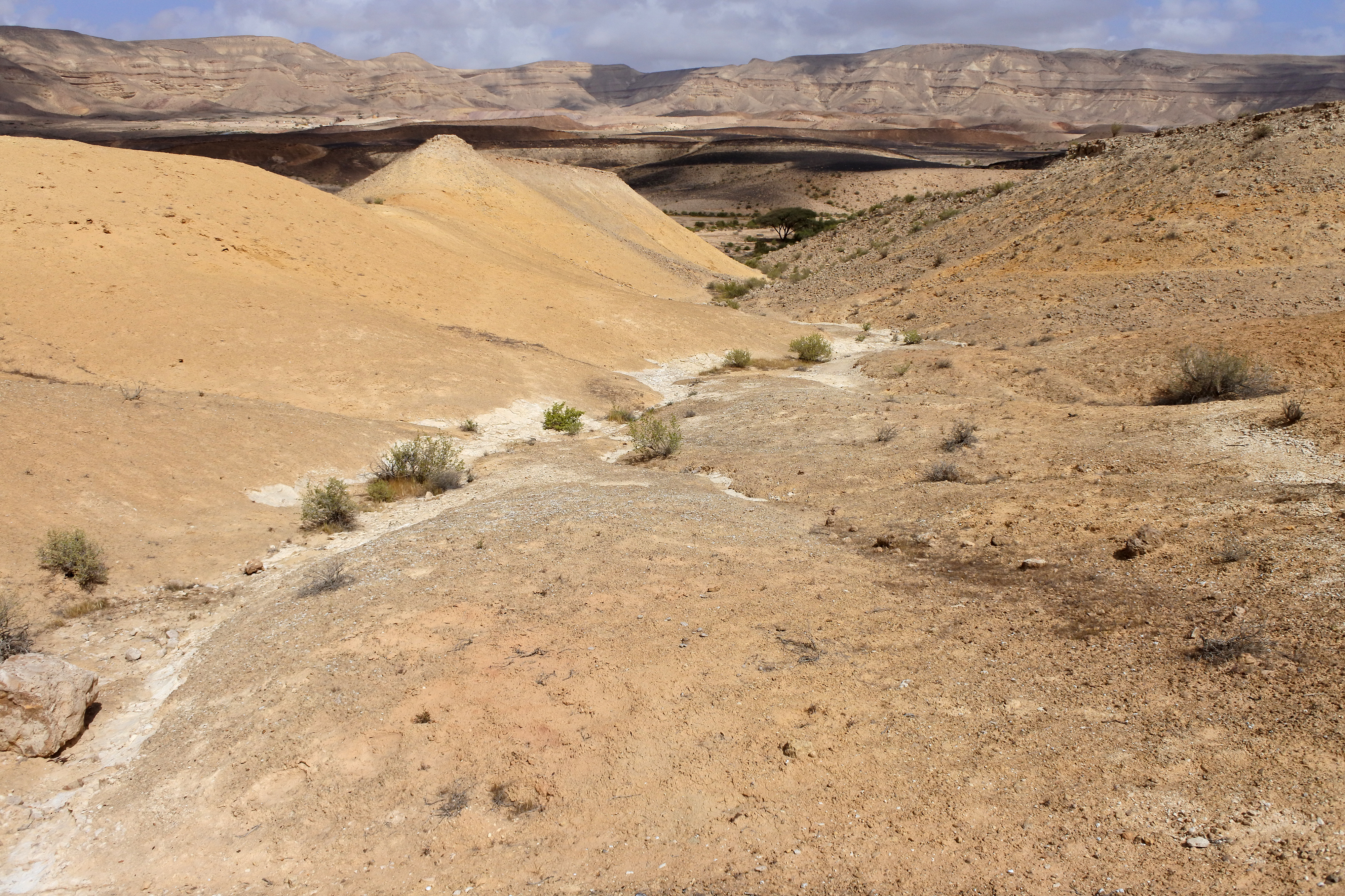 Upper Matmor Formation (Callovian) in Makhtesh Gadol, southern Israel.